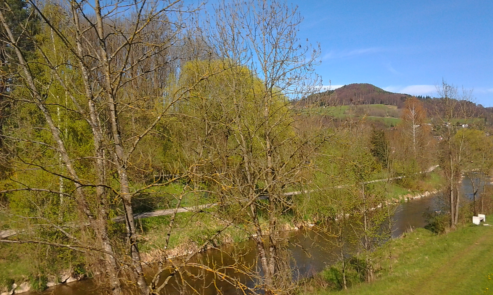 Fischach creek in the municipality area of Bergheim, state of Salzburg, Austria, short way before emptying into Salzach river